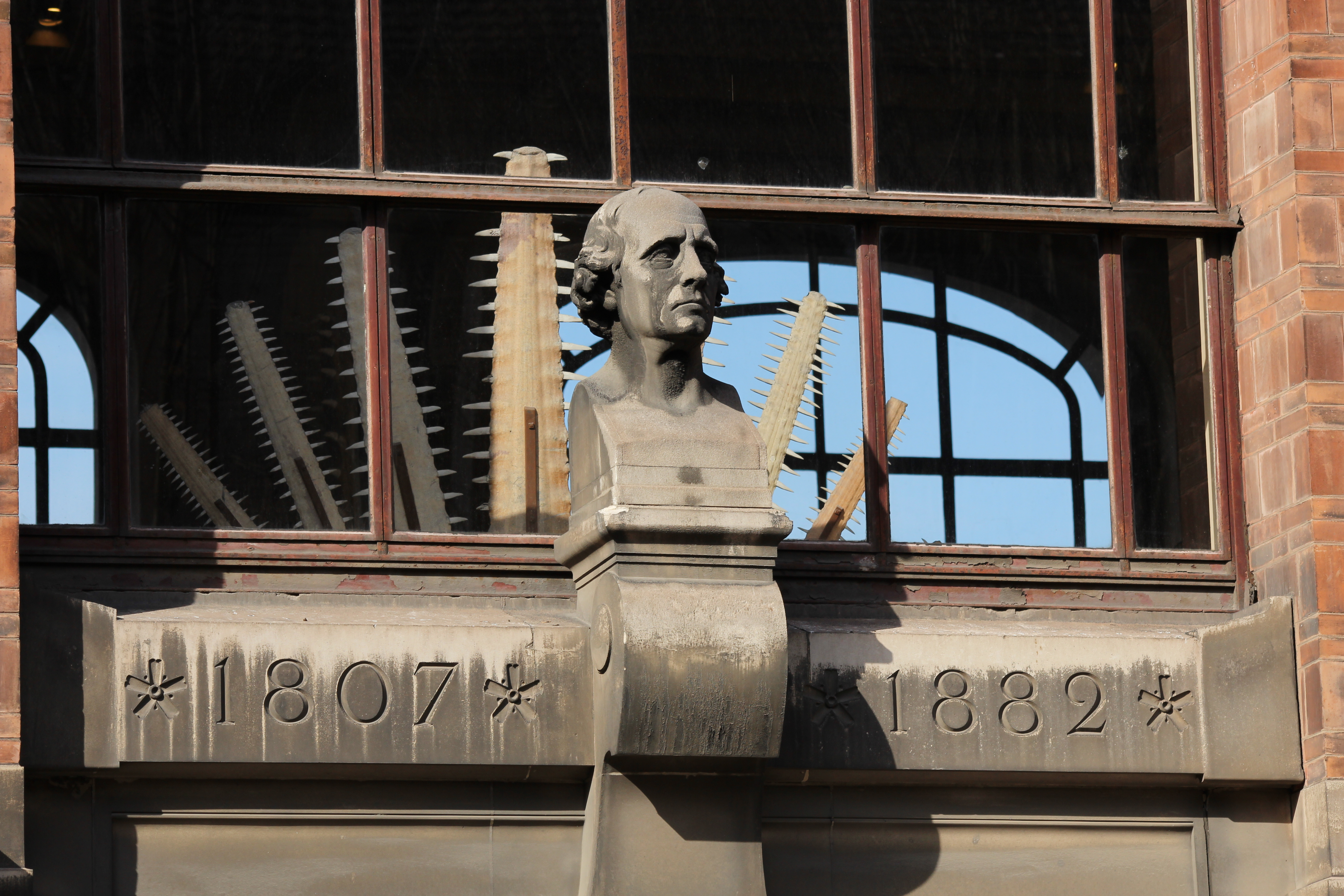 Galerie de paléontologie et d'anatomie comparée (gallery of palaeontology and comparative anatomy in french) on Buffon street side of the Jardin des Plantes (garden of plants in french) in Paris, France. Object location48° 50′ 35.23″ N, 2° 21′ 46.33″ E